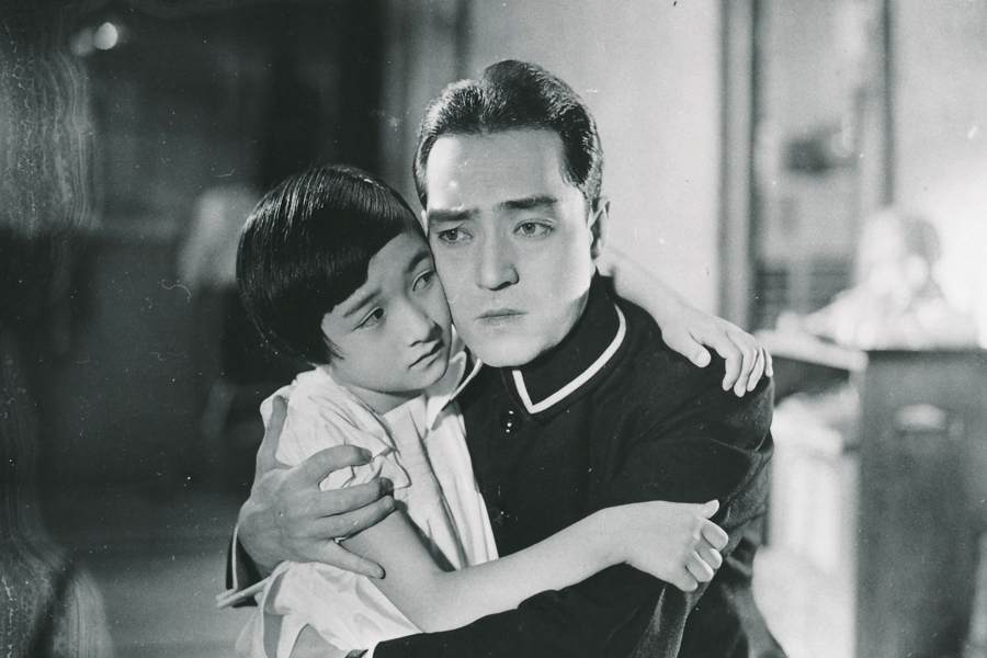 Hideko Takamine and Jōji Oka in Hoho o yosureba (頬を寄すれば) directed by Yasujirō Shimazu - 1933